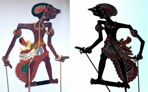 Tantanus, wayang kulit figure from the wayang shadow play Serat Menak Sasak